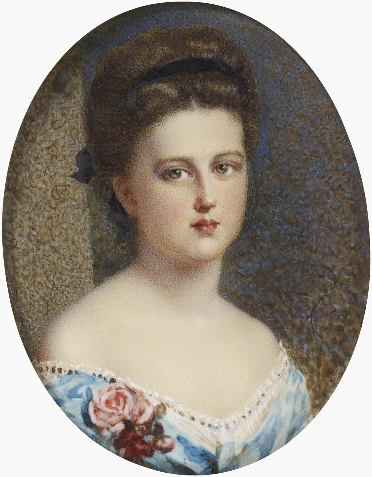 Marie Alexandrovna, Grand Duchess of Russia, Duchess of Edinburgh (1853-1920) Based on a full-length portrait by Gustav Richter (1823 – 84), signed and dated 1874 (405024; Royal Collection). Queen Victoria was very complimentary in her assessment of the likeness in Richter’s portrait: ‘Richter’s Picture of Marie wh. arrived on Sunday is really a beautiful one – so well painted – & so like every one says’ (RA VIC/ADDU/32/20, January 1874). The young Duchess of Edinburgh herself did not so easily impress everyone at Queen Victoria’s court, however, Sir Henry Ponsonby referring to her as ‘the spoilt daughter of a semi-Eastern despot’ (RA VIC/ADDA/36/585). Signed on the left with initials (scratched out): DM and inscribed on the reverse in ink: HRH / The Duchess of / Edinburgh / after Gustav Richter / By D. Mossman